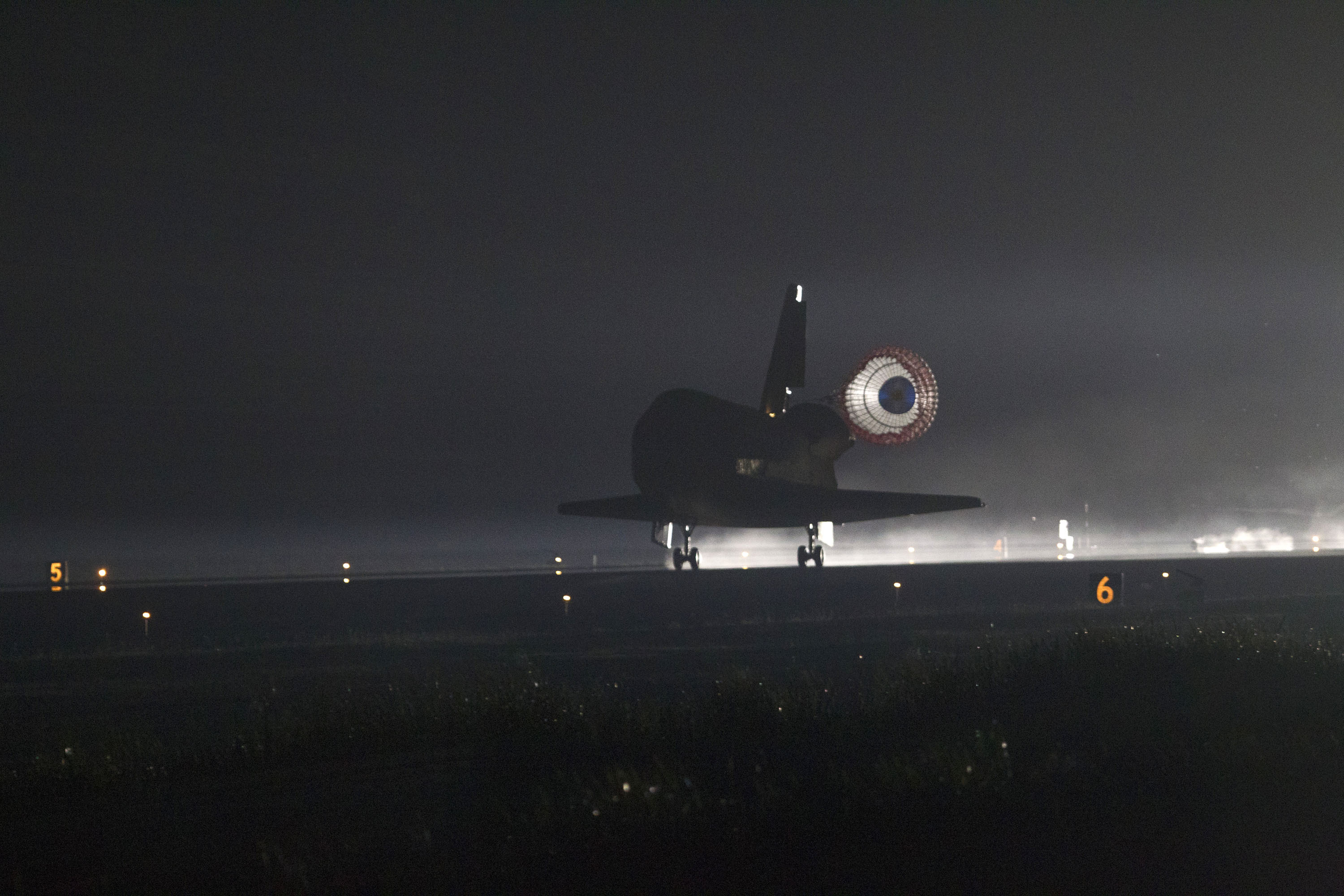 CAPE CANAVERAL, Fla. – Xenon lights illuminate space shuttle Endeavour's unfurled drag chute as the vehicle rolls to a stop on the Shuttle Landing Facility's Runway 15 at NASA's Kennedy Space Center in Florida for the final time. Main gear touchdown was at 2:34:51 a.m. EDT, followed by nose gear touchdown at 2:35:04 a.m., and wheelstop at 2:35:36 a.m. On board are STS-134 Commander Mark Kelly, Pilot Greg H. Johnson, and Mission Specialists Mike Fincke, Drew Feustel, Greg Chamitoff and the European Space Agency's Roberto Vittori. STS-134 delivered the Alpha Magnetic Spectrometer-2 (AMS) and the Express Logistics Carrier-3 (ELC-3) to the International Space Station. AMS will help researchers understand the origin of the universe and search for evidence of dark matter, strange matter and antimatter from the station. ELC-3 carried spare parts that will sustain station operations once the shuttles are retired from service. STS-134 was the 25th and final flight for Endeavour, which has spent 299 days in space, orbited Earth 4,671 times and traveled 122,883,151 miles.